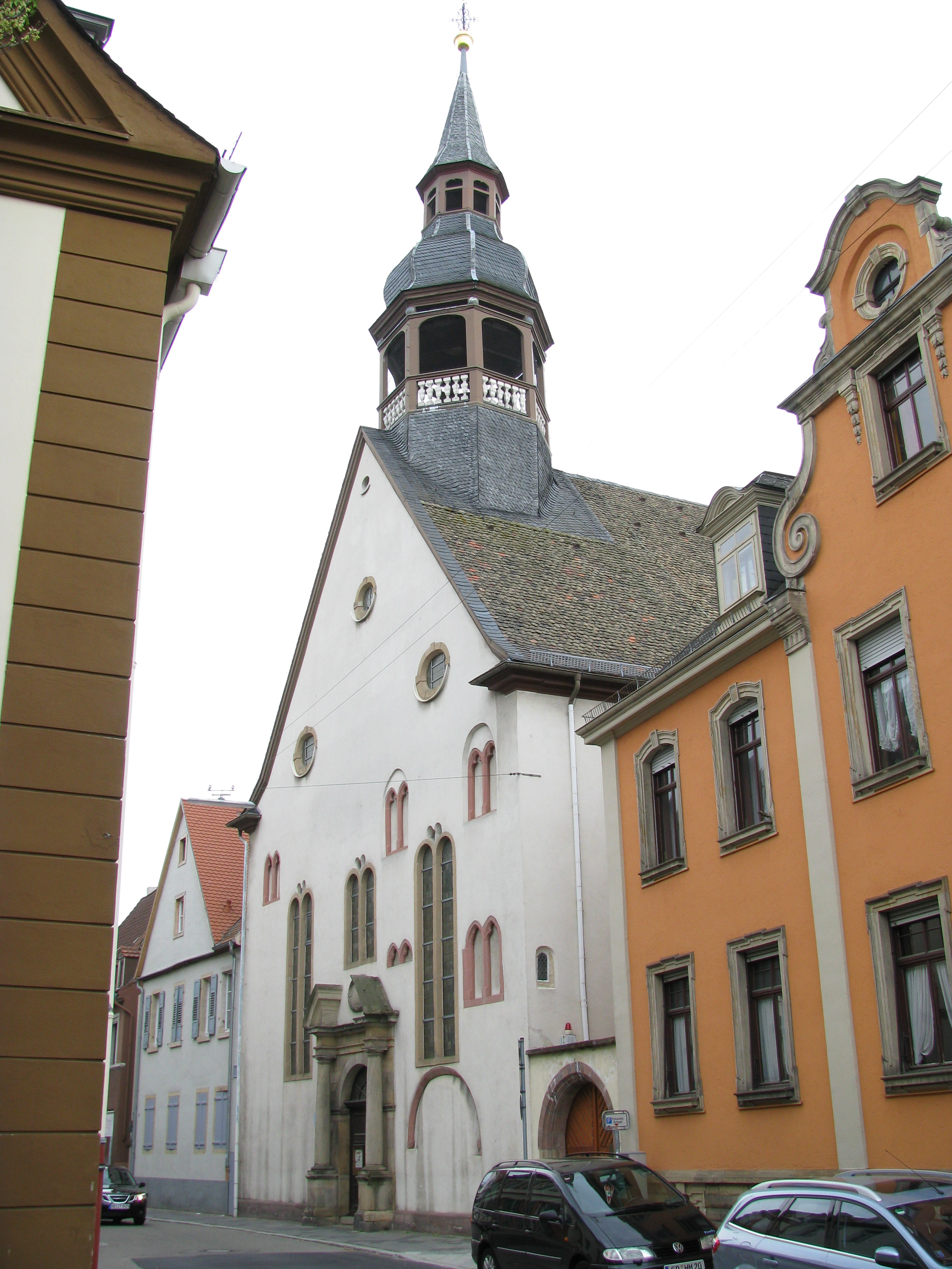 Speyer: Heiliggeistkirche (Church of the Holy Spirit)